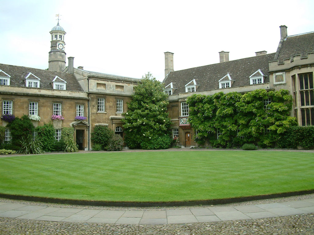 Christ's College First Court - by Op. Deo July 2007. From left: O staircase, Chapel, Master's Lodge covered with large wisteria, Hall.